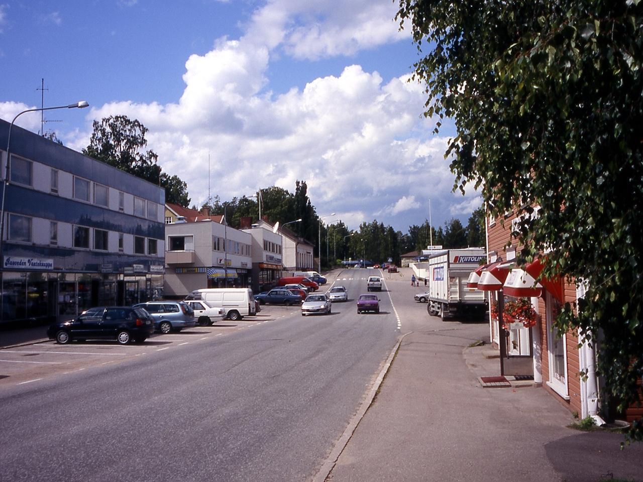 Ruovedentie, the main street of Ruovesi, Finland